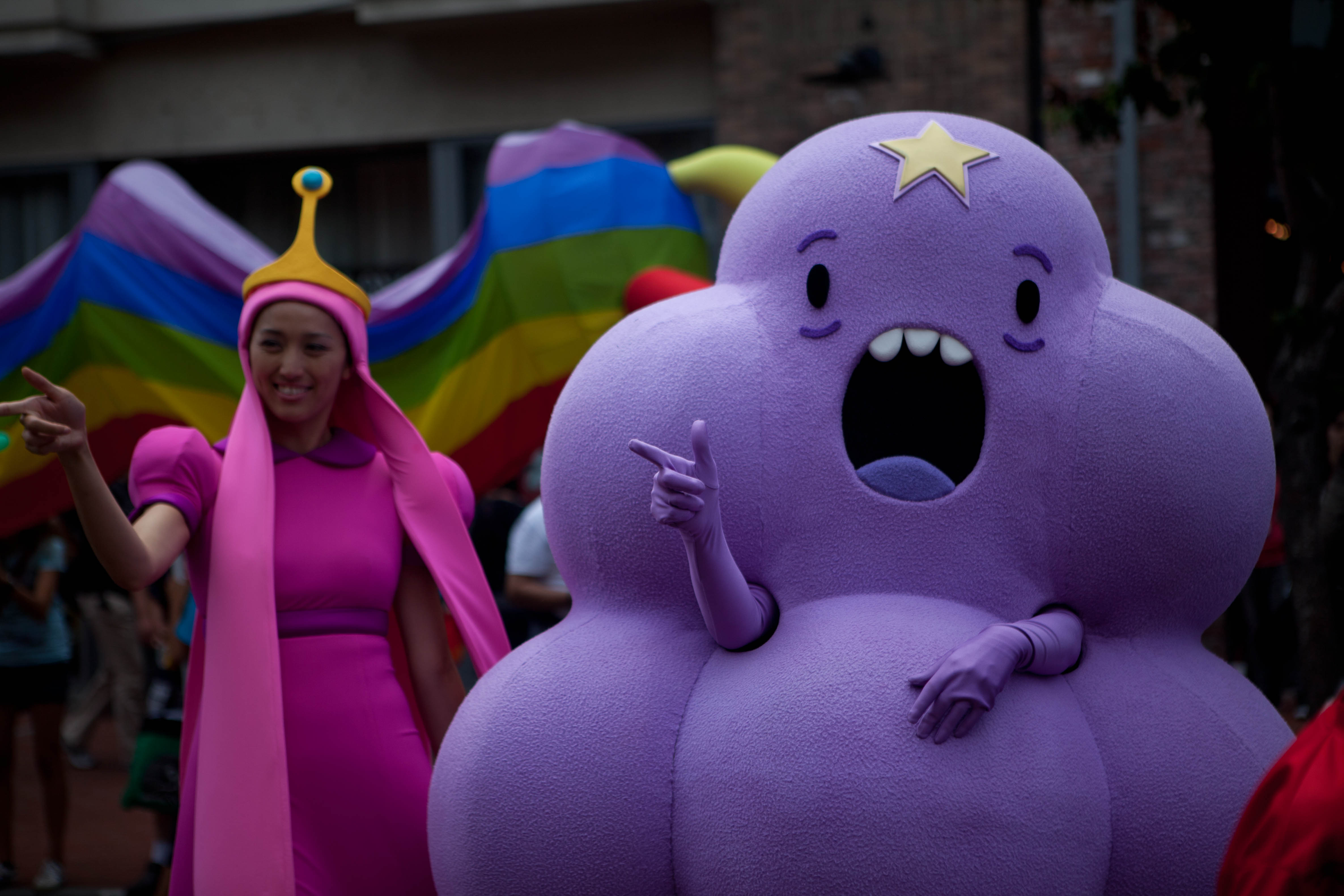 Performers dressed as the Adventure Time characters Princess Bubblegum (left) and Lumpy Space Princess (right).